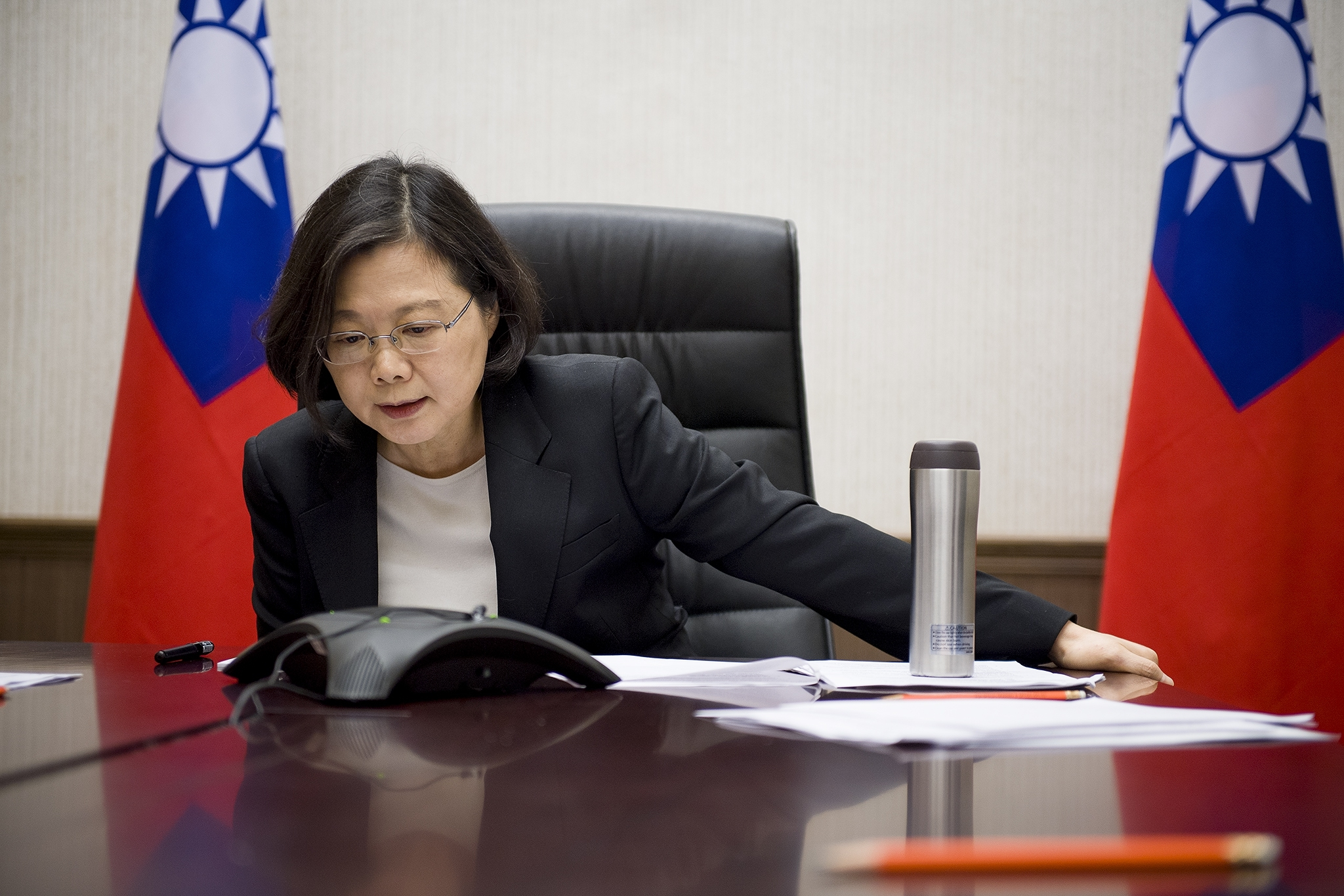 The President (Tsai Ing-wen) made a phone call to Donald J. Trump, ​President-elect of the United States, on 2 December.